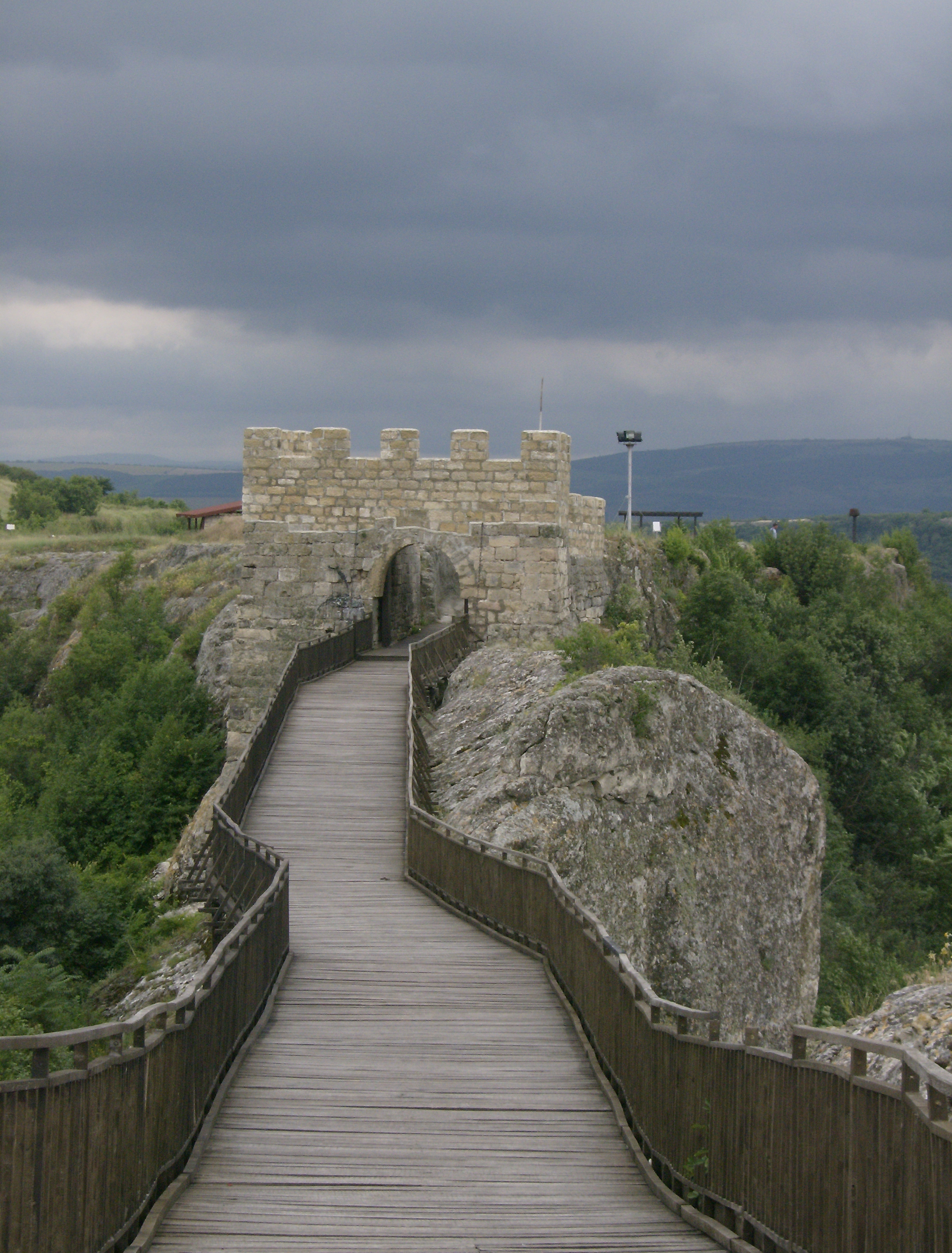 Ovech Fortress